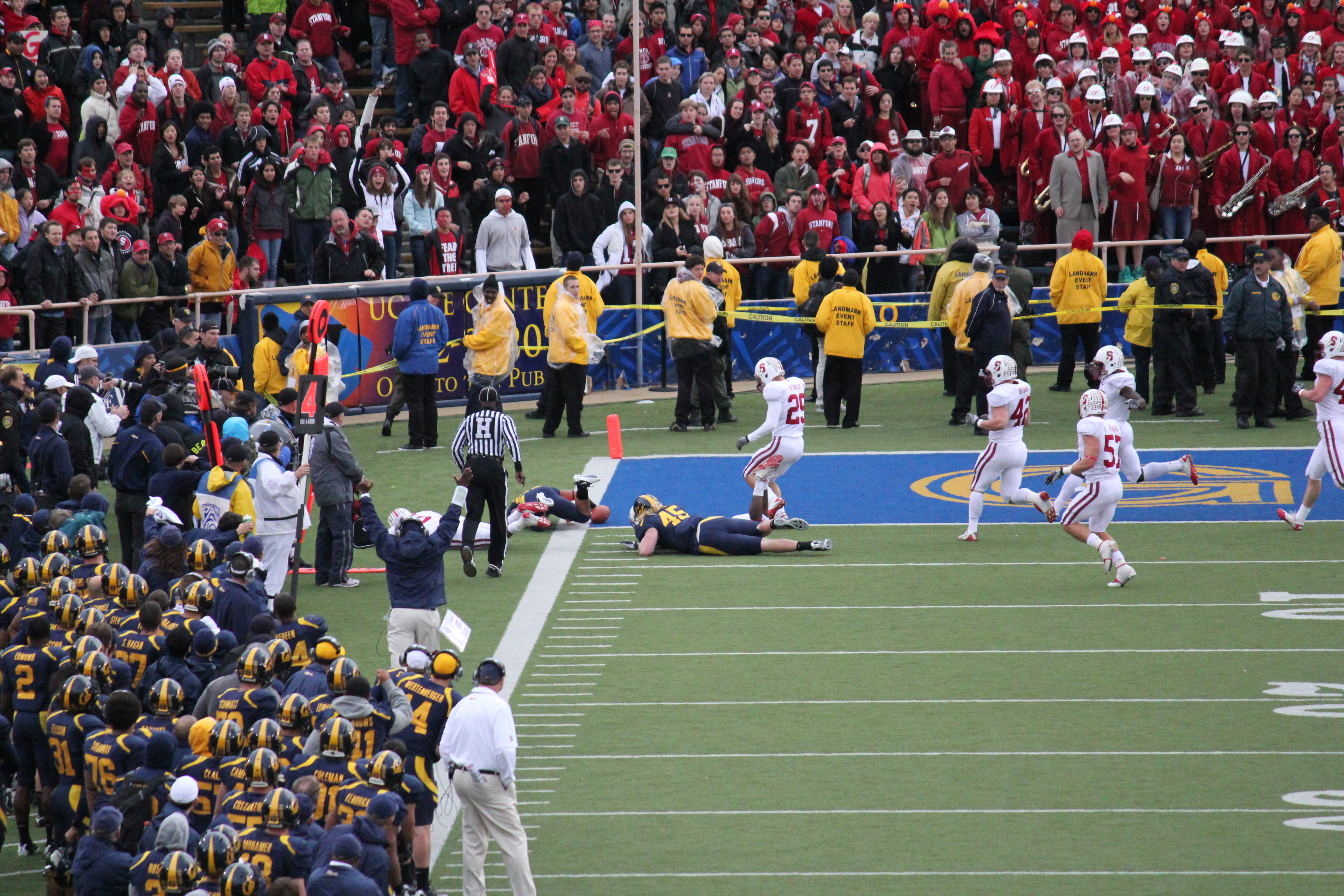 Cal running back Isi Sofele scores a touchdown at the 113th Big Game at Memorial Stadium. The Cardinal won 48-14.